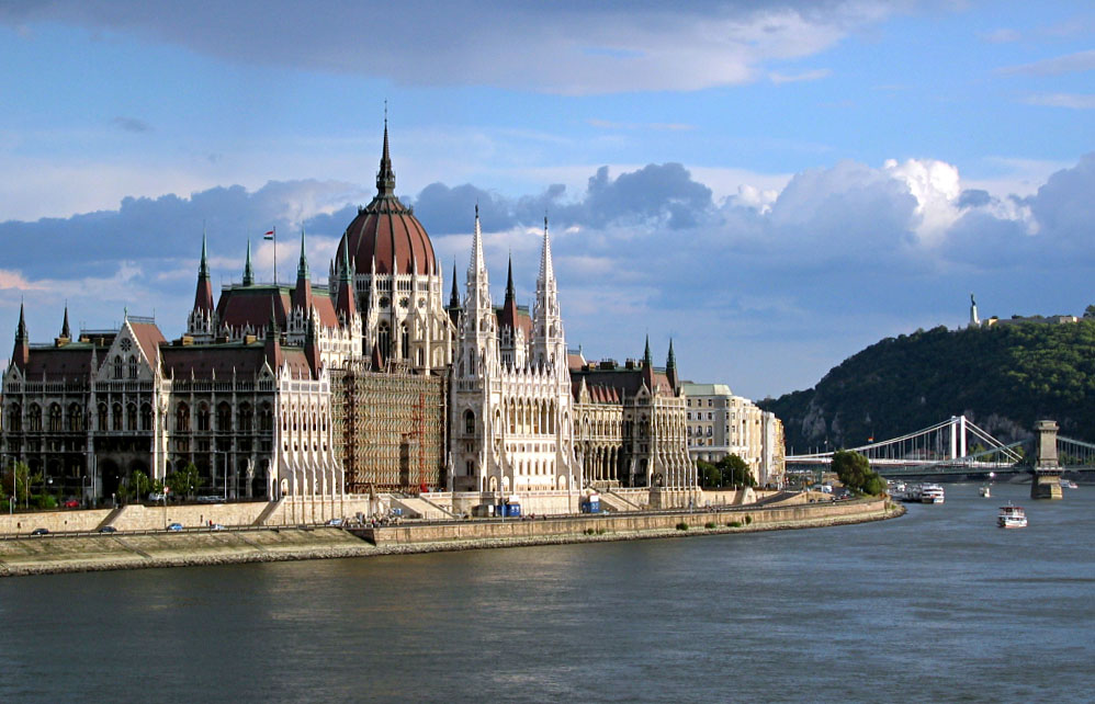 Budapest, the Parliament as seen from the Margaret Bridge